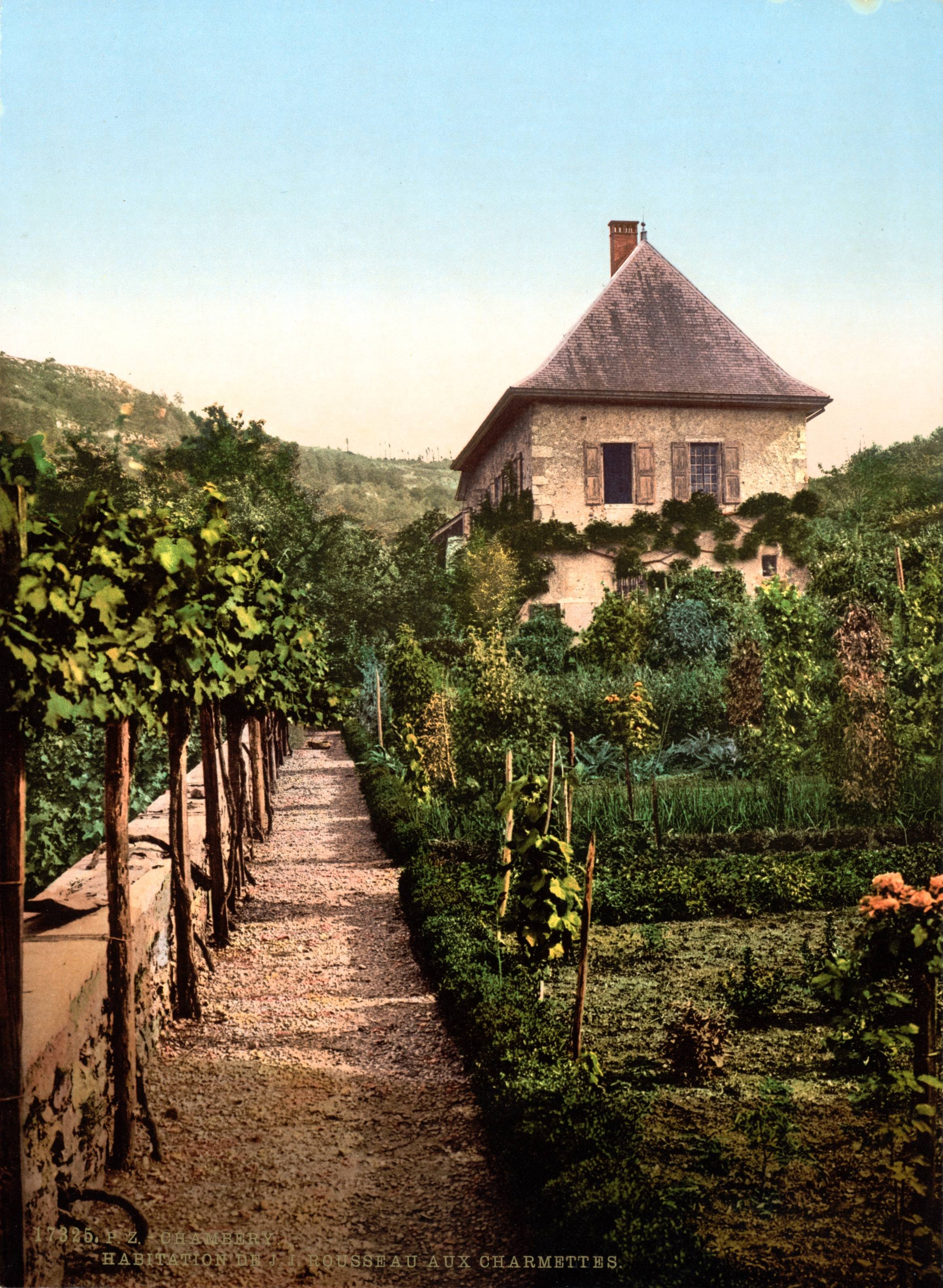 Jean-Jacques Rousseau's home, Charmettes, near Chambéry, France.